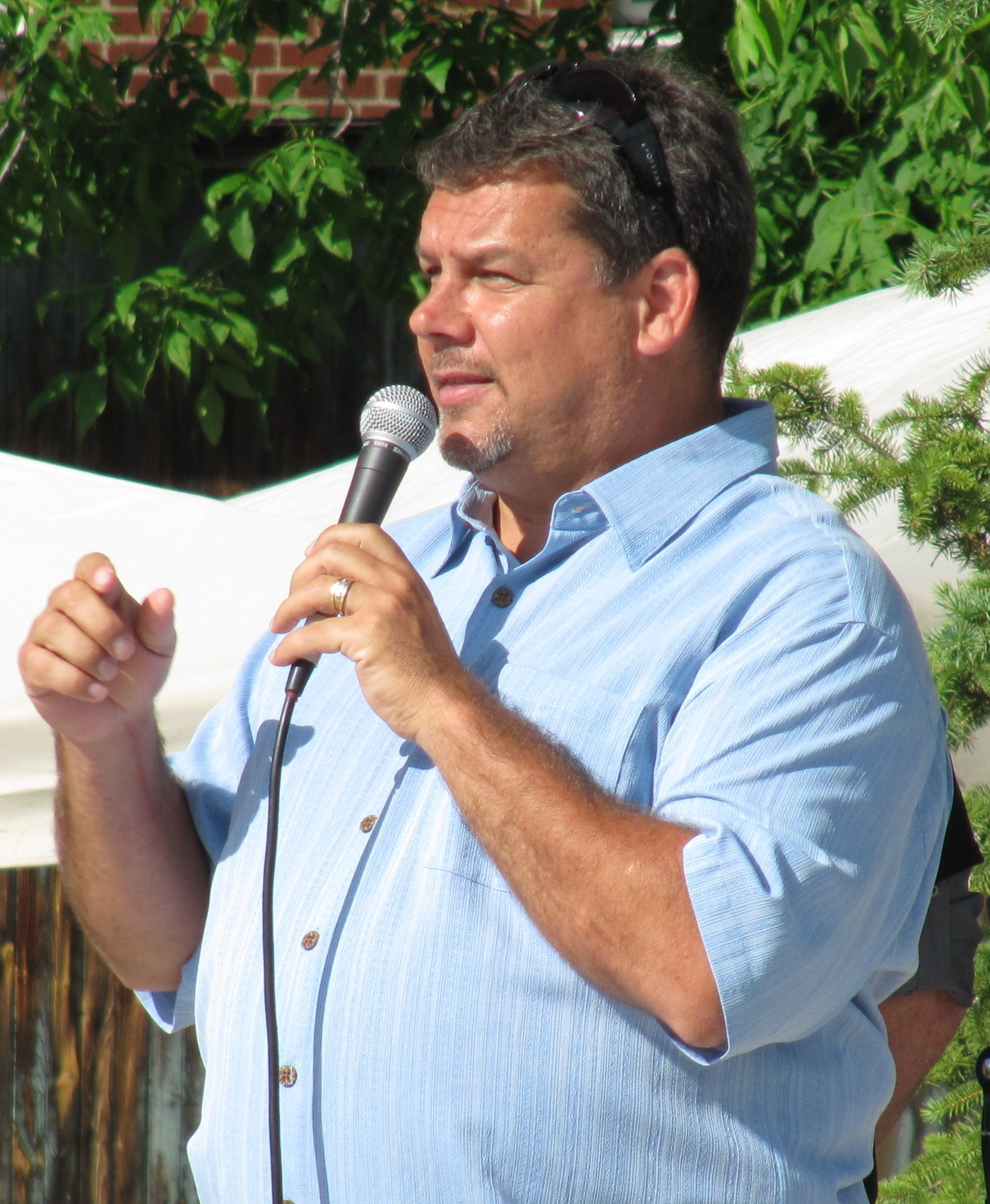 Toronto Councillor Mark Grimes at Amos Waites Park in Mimico, June 2010